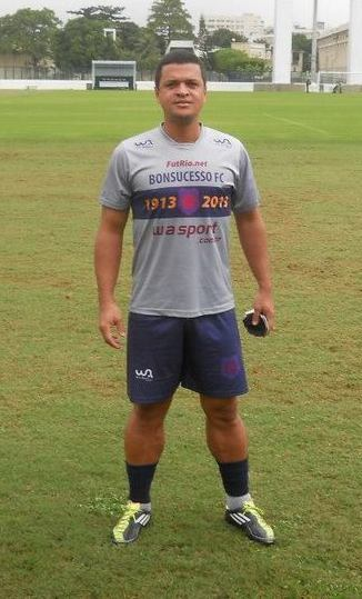 It is a language